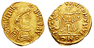 Lombards: kingdom of Italy. In the name of Justinian I. Struck circa 568-590. AV Tremissis (1.37 gm). Uncertain Lombard mint. Garbled legend. pearl-diademed bust of Justinian right Garbled legend, Victory standing, facing, holding wreath and globe surmounted by cross; in exergue, ONO. Cf. MEC 294. VF. In alliance with Justinian I and serving in the army of Narses, about 5500 Lombards were first introduced into Italy in 552 under their leader Audoin. By 568, under pressure from the Avars, King Albion led the Lombards en masse into Italy. Their rapid early conquest slowed in the 570’s because of internal dissension and Byzantine counter offensives, but under Agilulf (590-616) they established a strong kingdom and were quickly romanized.